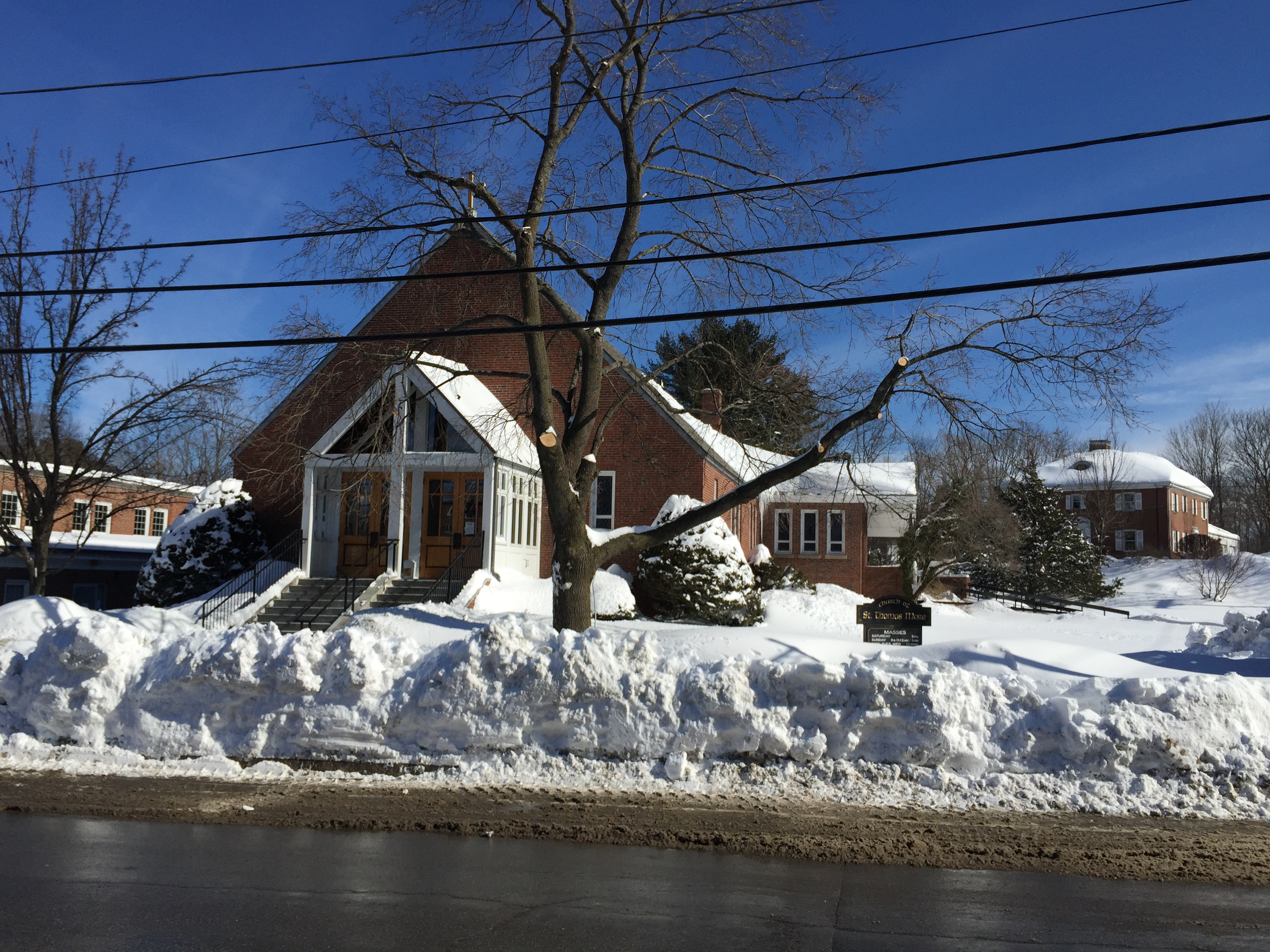 Saint Thomas More Parish, Durham, New Hampshire, February 2015